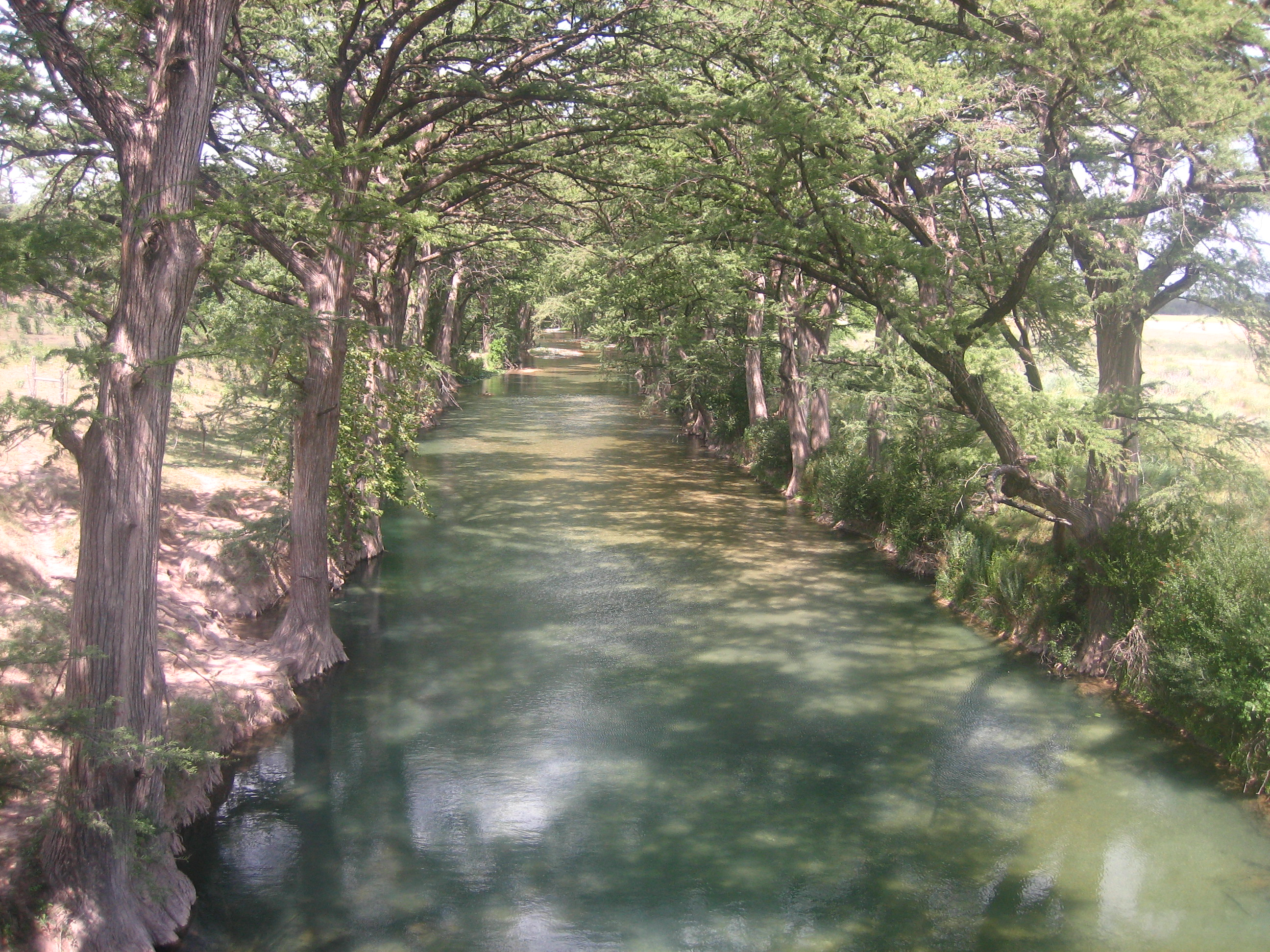 I took photo on July 19, 2008.Billy Hathorn (talk) 17:31, 3 February 2009 (UTC)